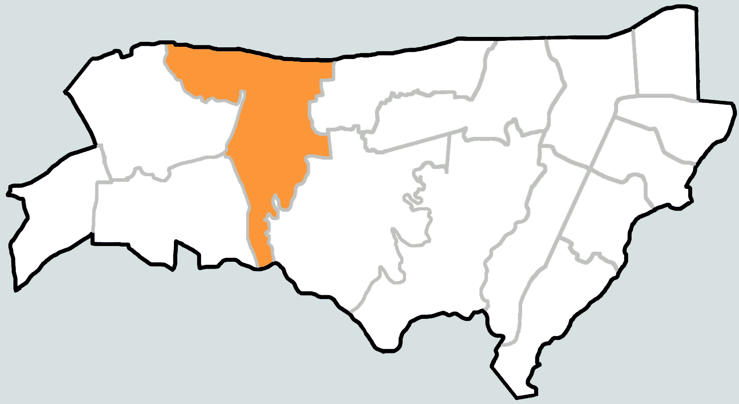 Map of Myeongdong within Jung-gu, Seoul